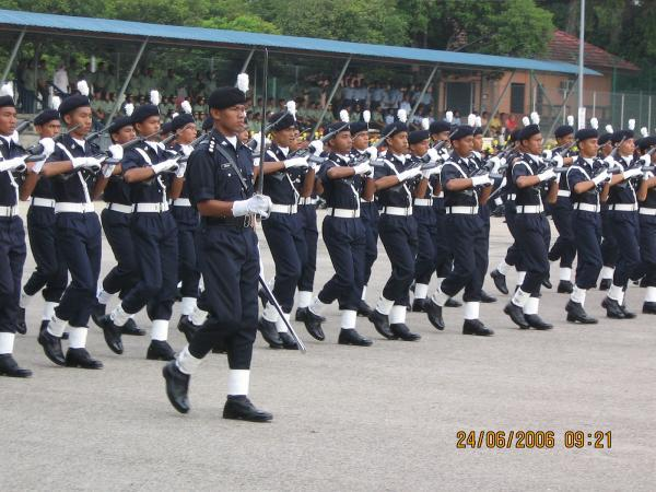 The parade of declaration of SUKSIS lead by acting ASP Ezuwar bin Yahaya.